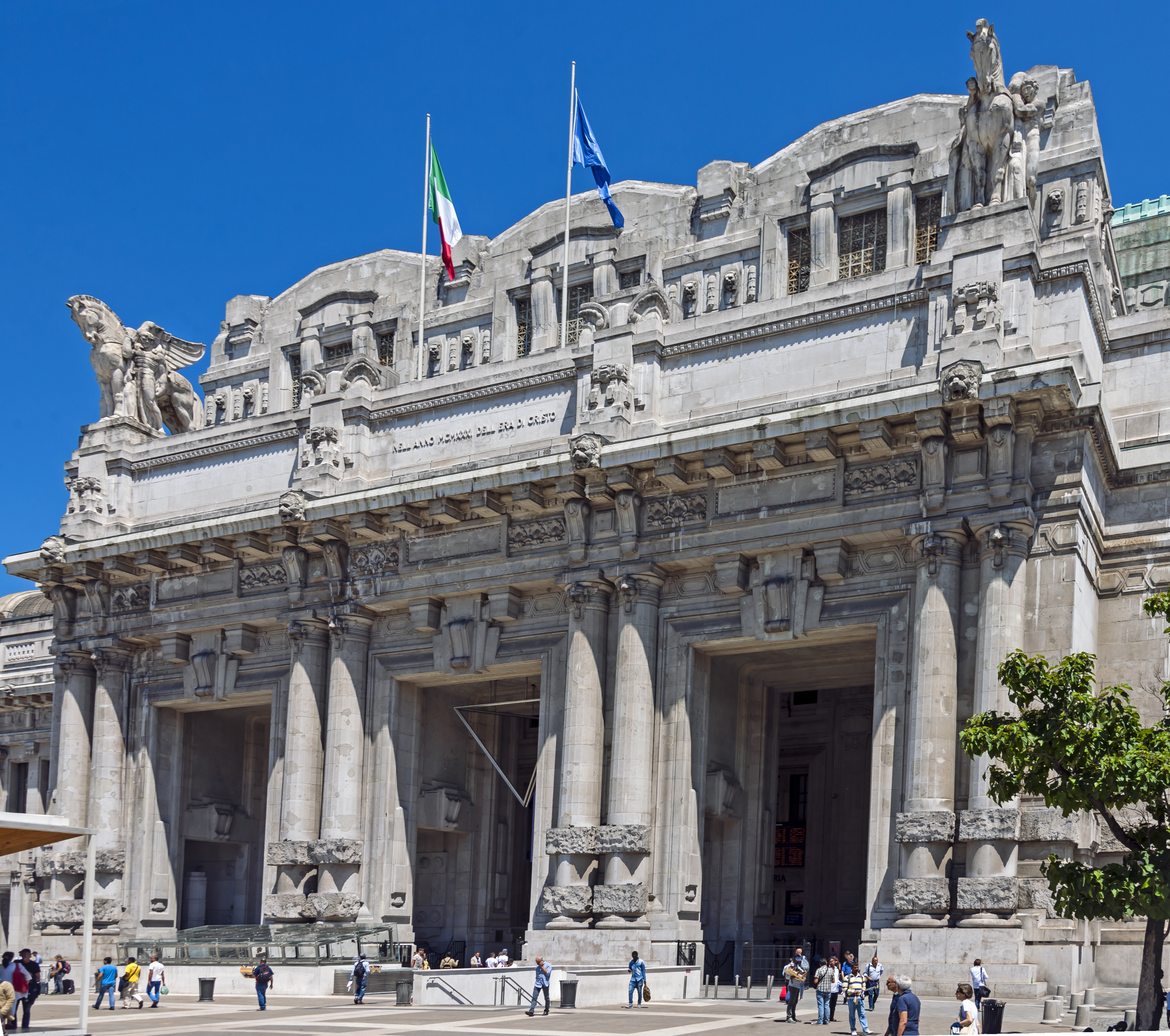 Front entrance portico of Stazione Centrale, Milan